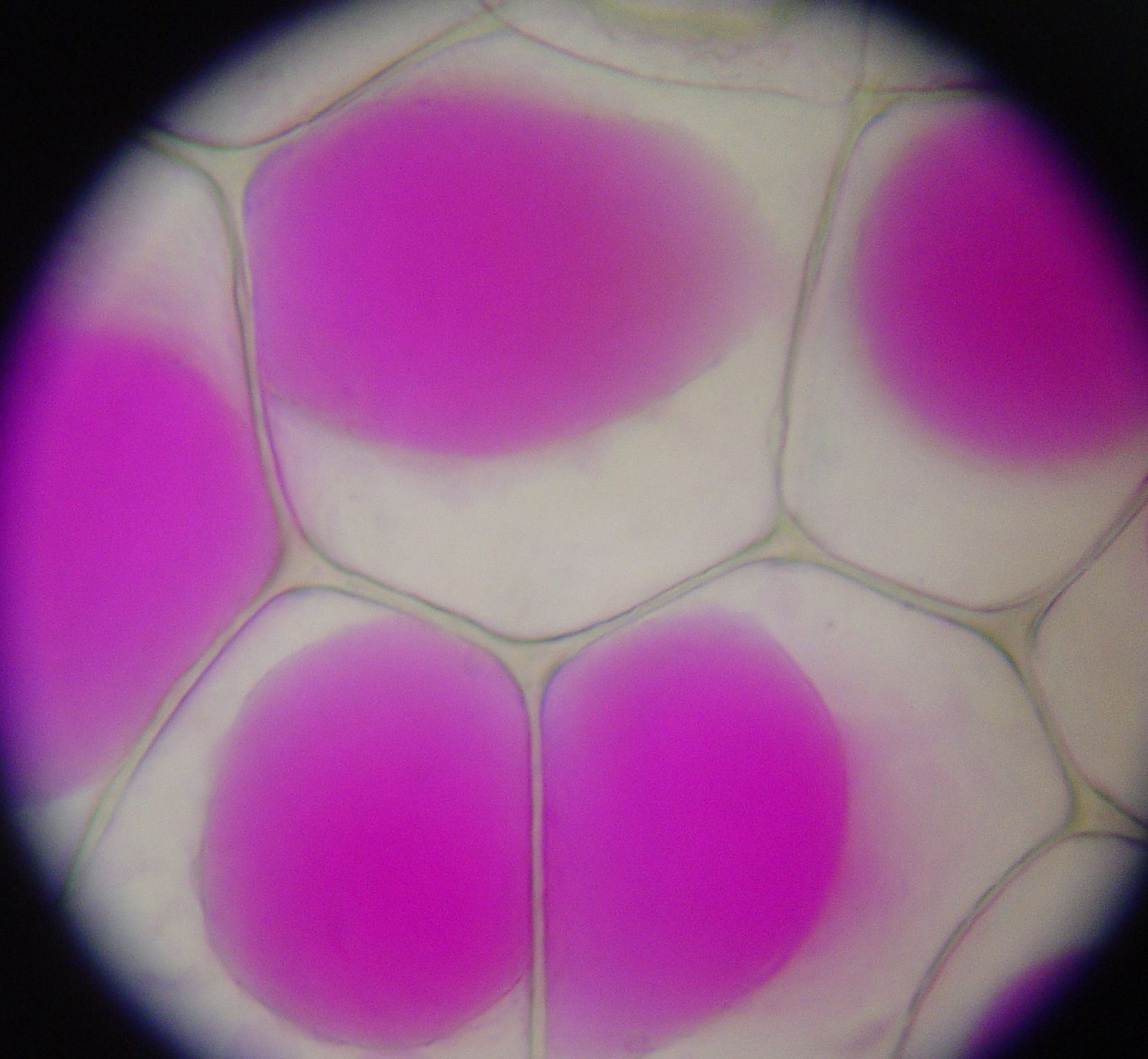 Epidermis cells of Rhoeo Discolor (Tradescantia) after plasmolysis. The vacuoles (pink) have shrunk. Size: Field of view ca. 450 µm